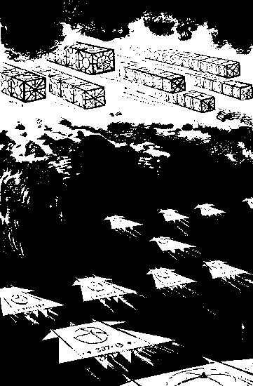 An illustration from Masters of Space by E. E. Smith and E. Everett Evans in the If magazine, November 1961.